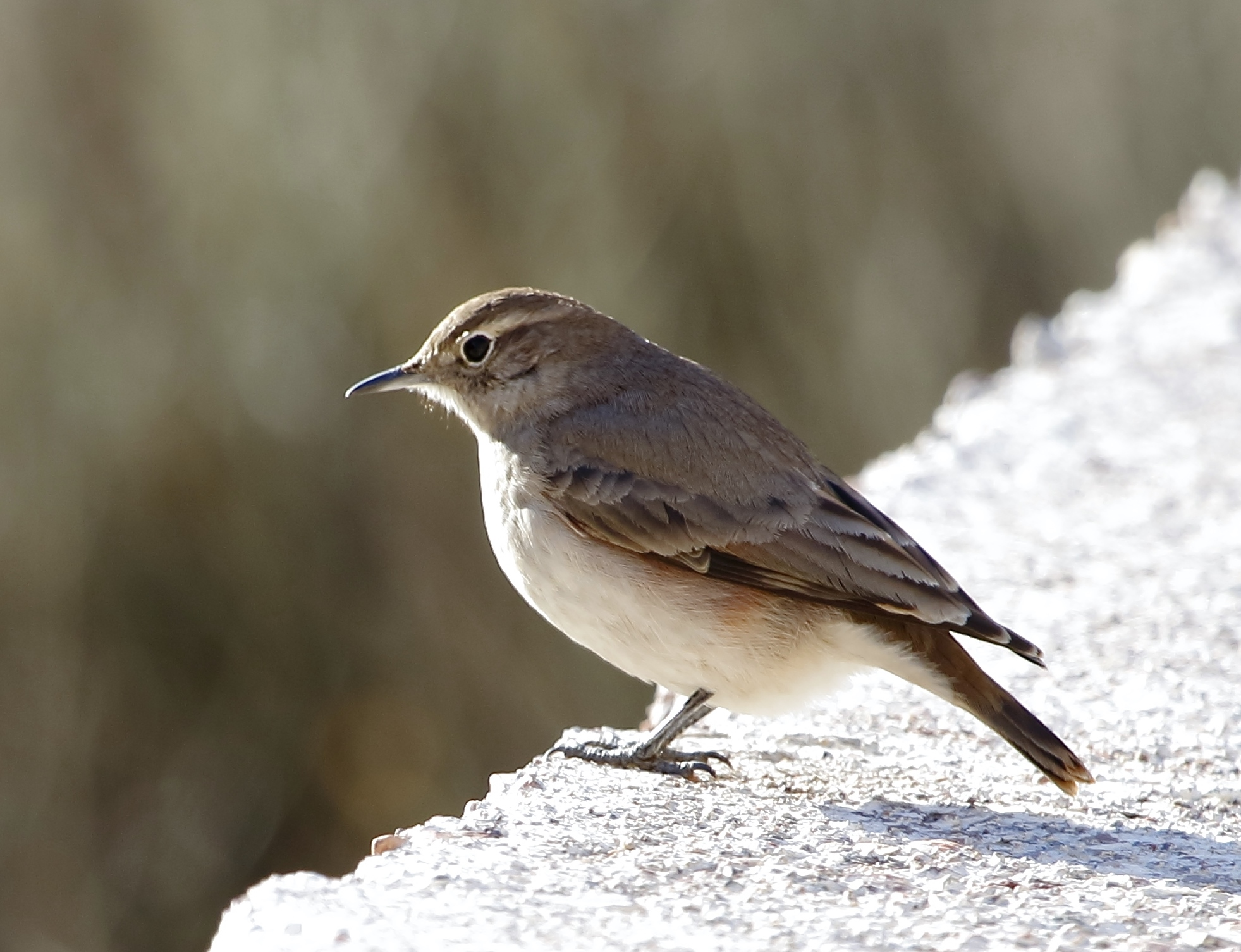 Rufous-banded miner at Road 7 - Las Heras - Mendoza - Argentina